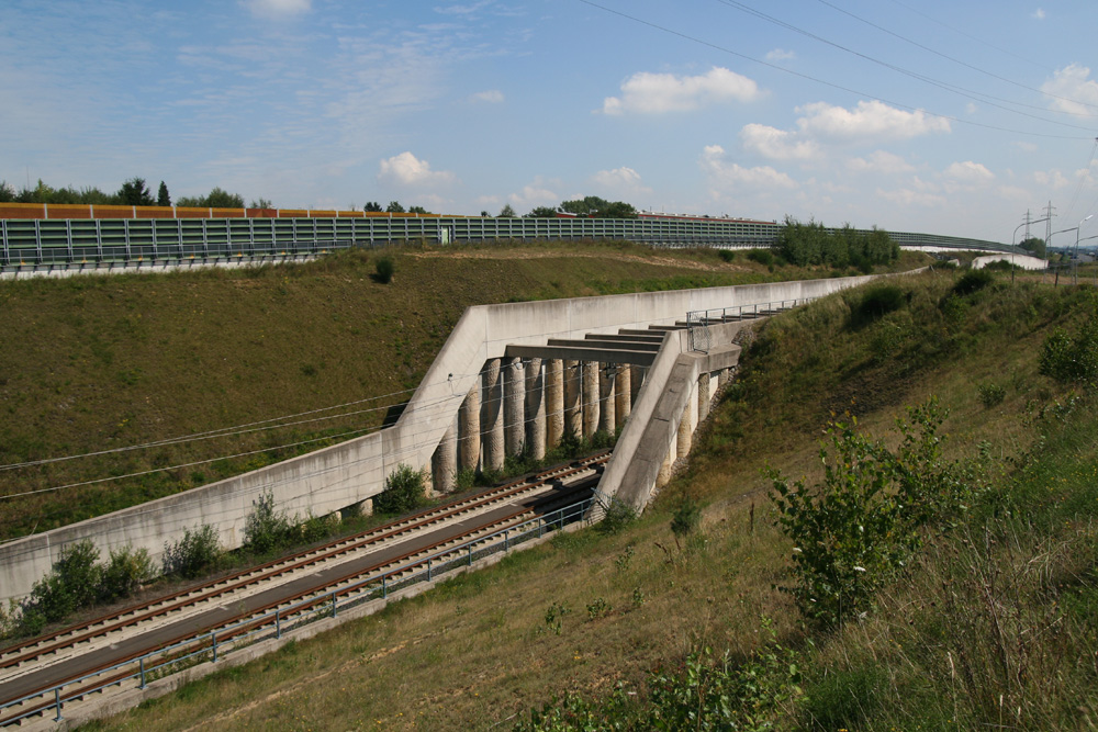 The north portal Windhagen crossing (tunnel) building